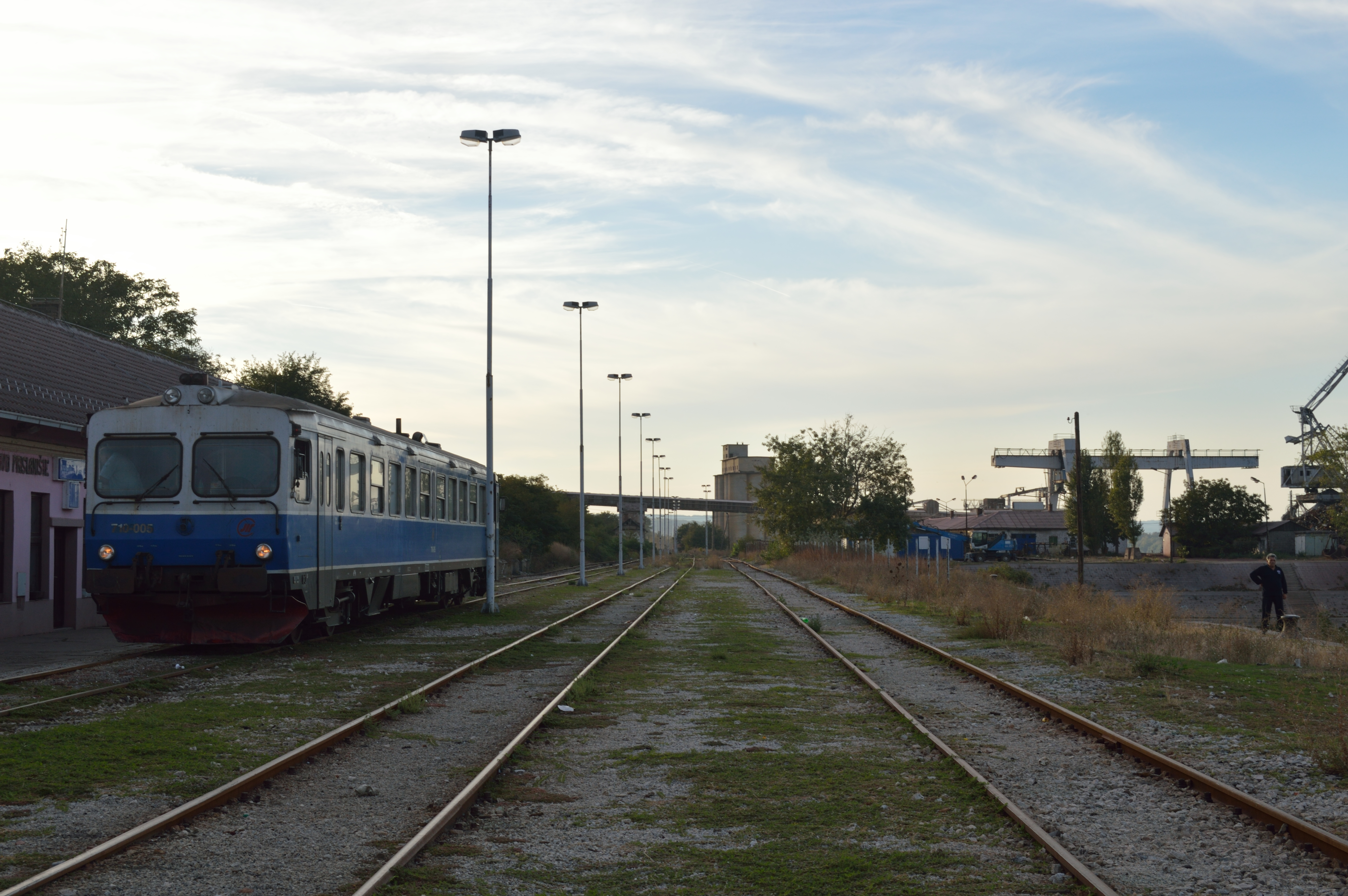 Balkans Rail Trip, Autumn 2013 - Day Four Another view of 710.005 at Prahovo Pristanište on 26 September 2013. See next picture for full description.